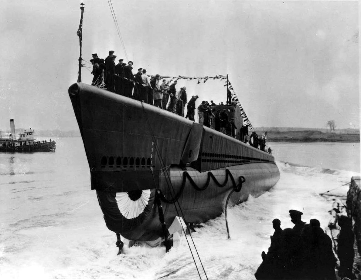 USS Shad; Sliding down the launching ways, Shad (SS-235), backs into the waters of the Portsmouth Navy Yard, Kittery, ME., 15 April 1942. US Navy photo, courtesy of webpage.